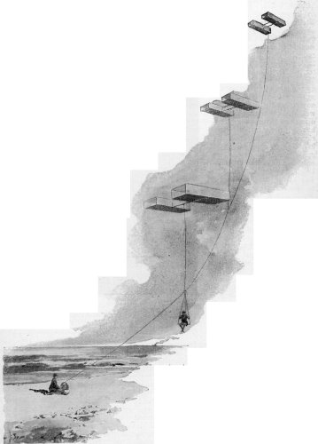 Lawrence "Hargrave lifted sixteen feet from the ground by a tandem of his box-kites" read the caption from McClure's Magazine, in an article by Cleveland Moffett titled "Scientific Kite-Flying".